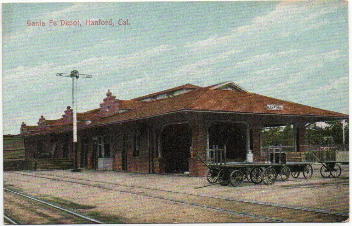 Early divided back postcard of Hanford station, postmarked 1910